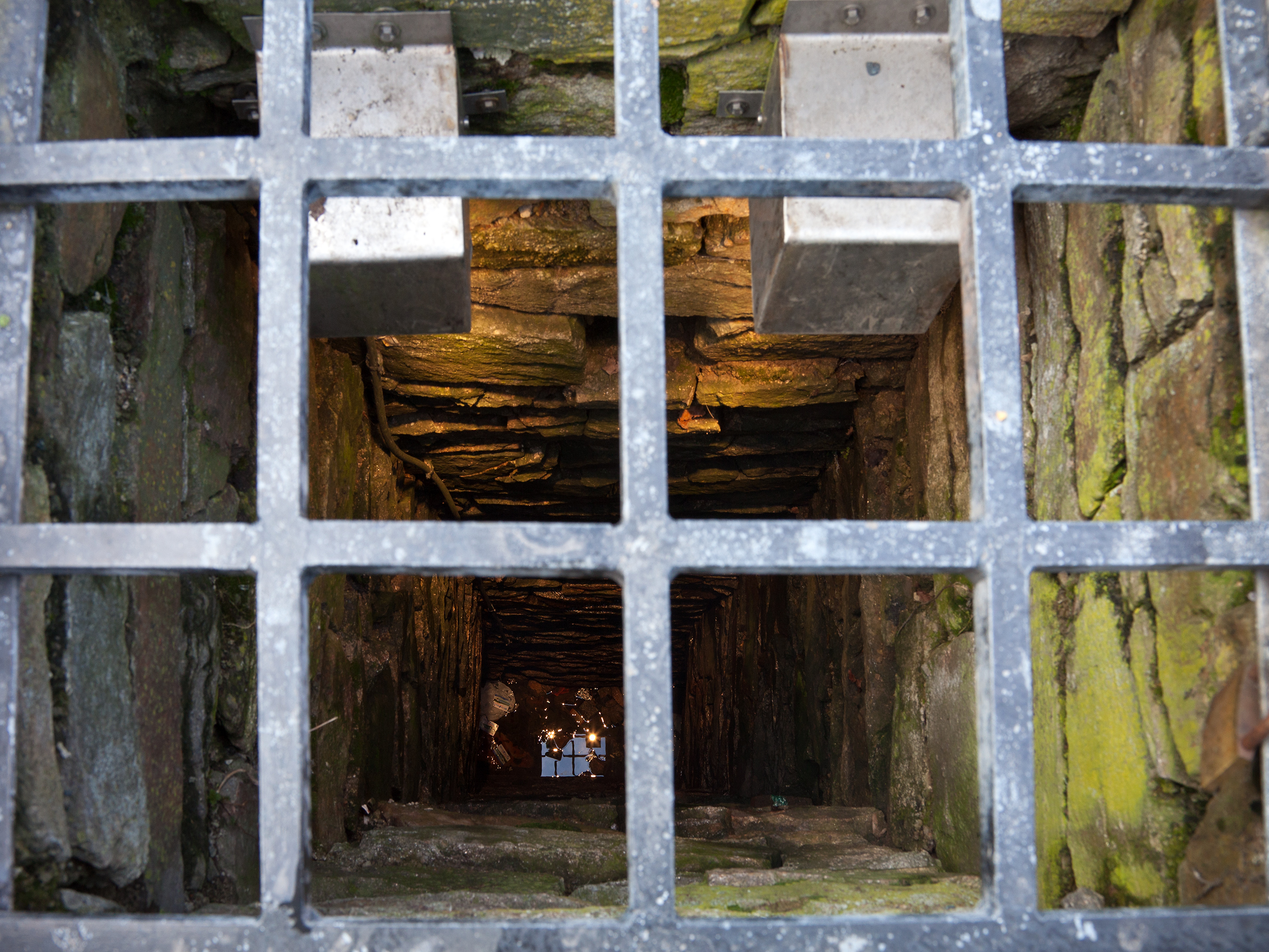 Freiberg, Lichtloch Ost der Anzucht Untermarkt (view onto a historic ditch made to remove wastewater)